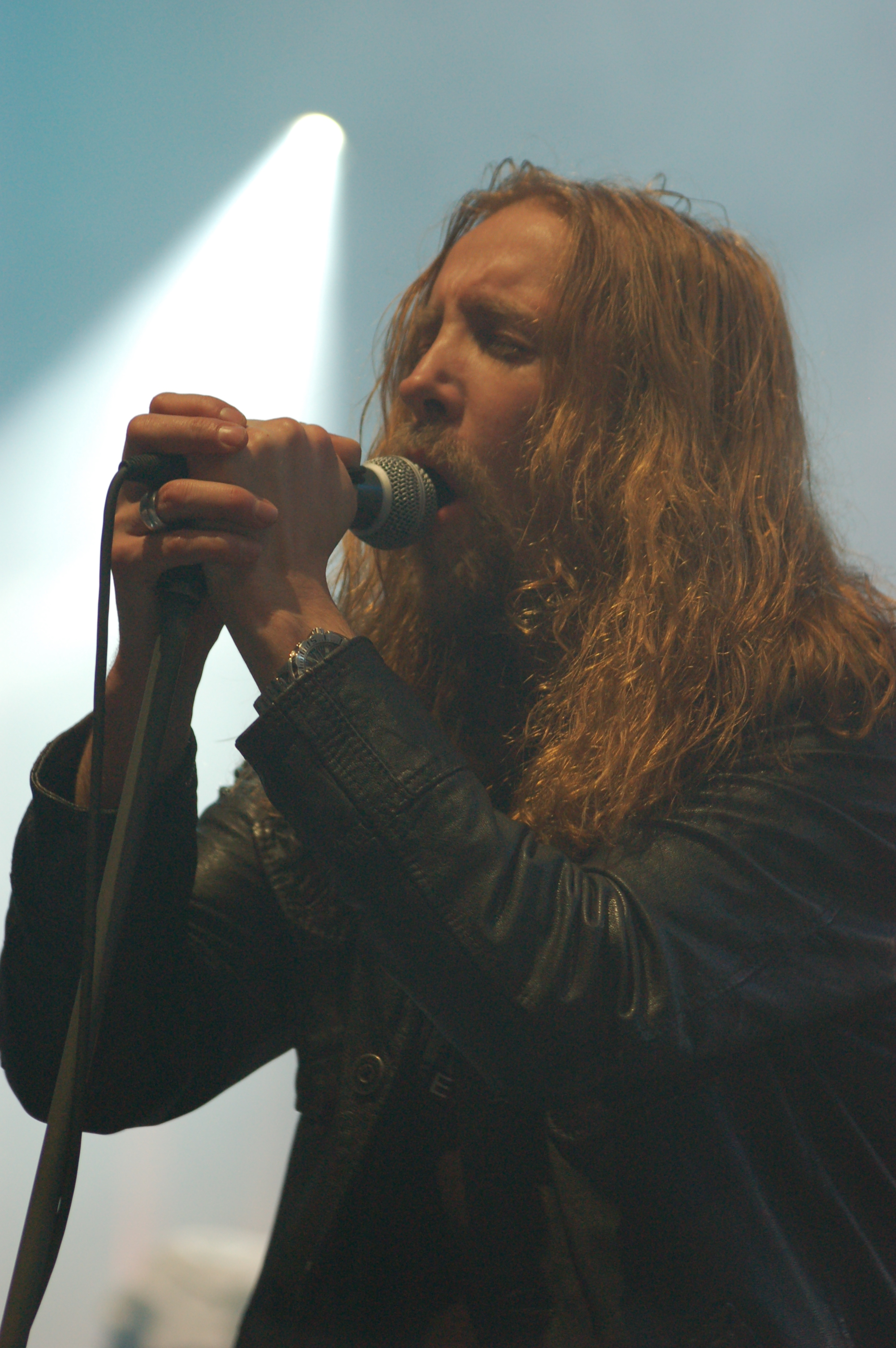 Nick Holmes from Paradise Lost during Metalmania 2007 festival